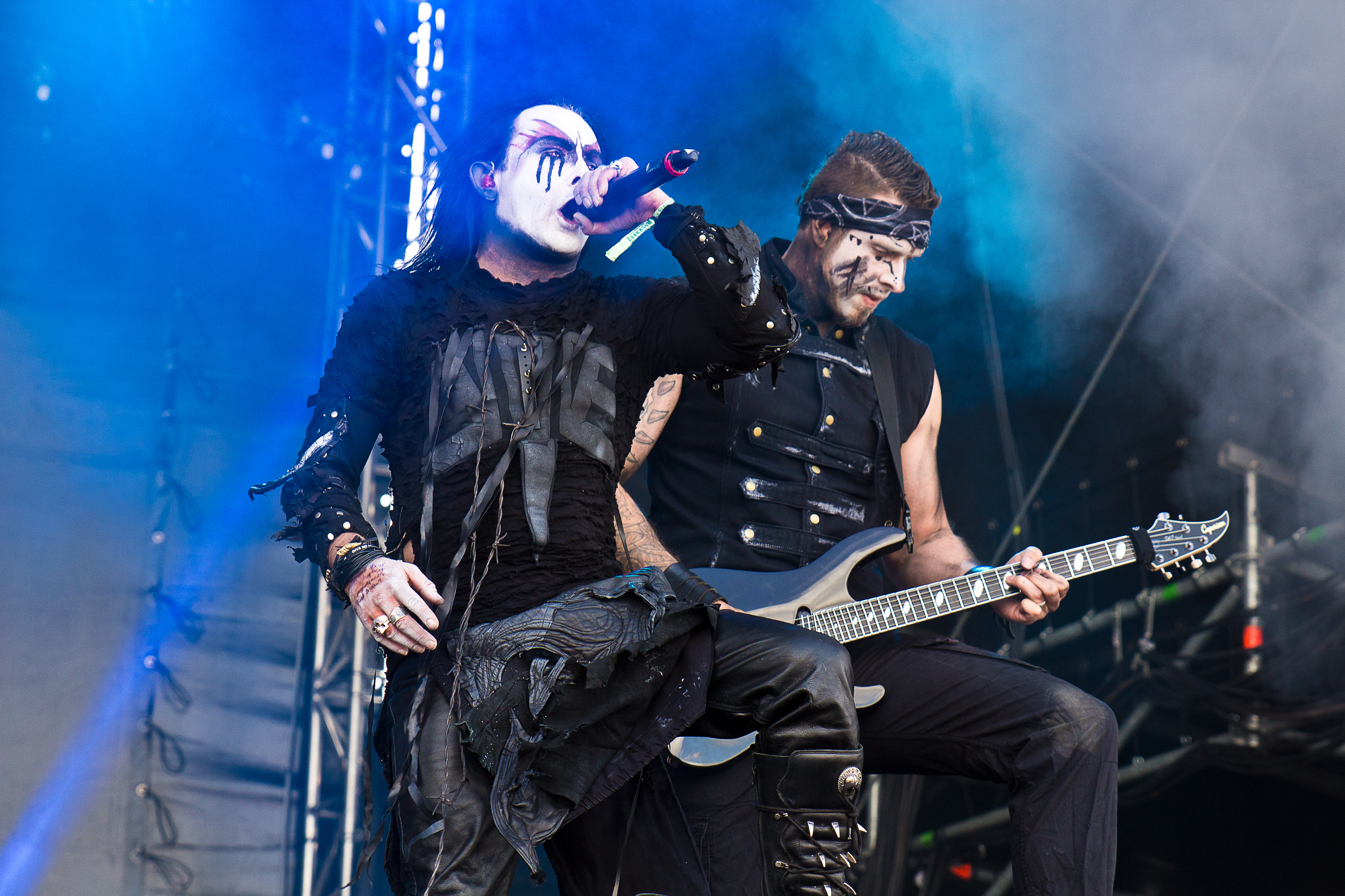 The British extreme metal band Devilment at the Rockharz Open Air 2015 in Ballenstedt/Germany.